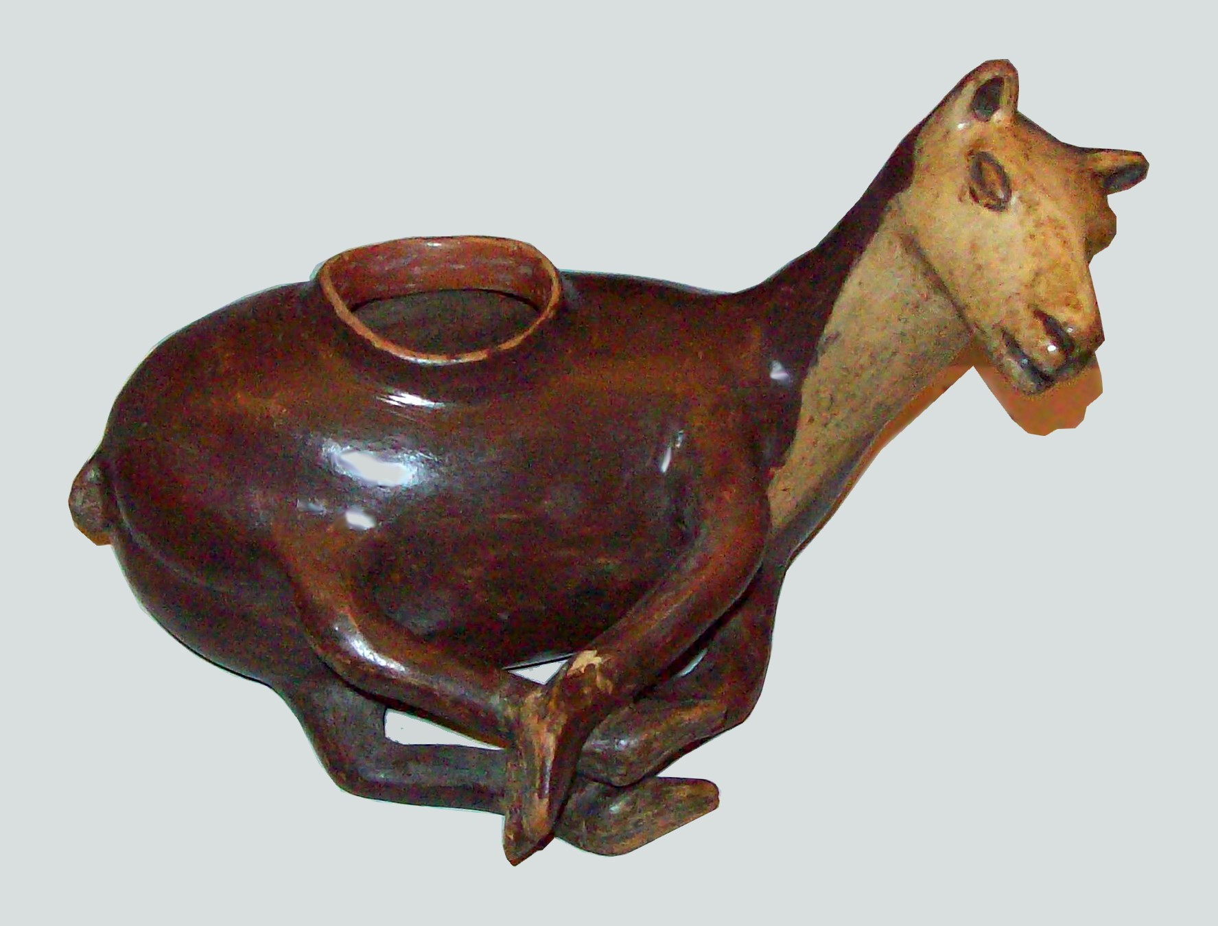 A Chimu vessel representing a llama.